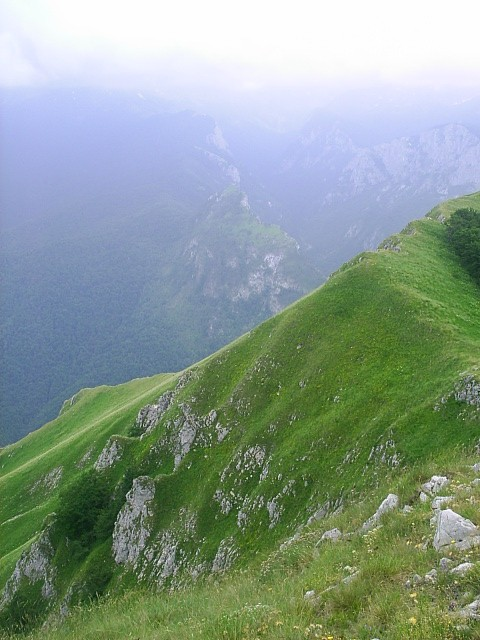 Prosječnica gorge on Sutjeska River, BiH